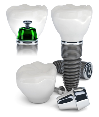 Implant Dentistry